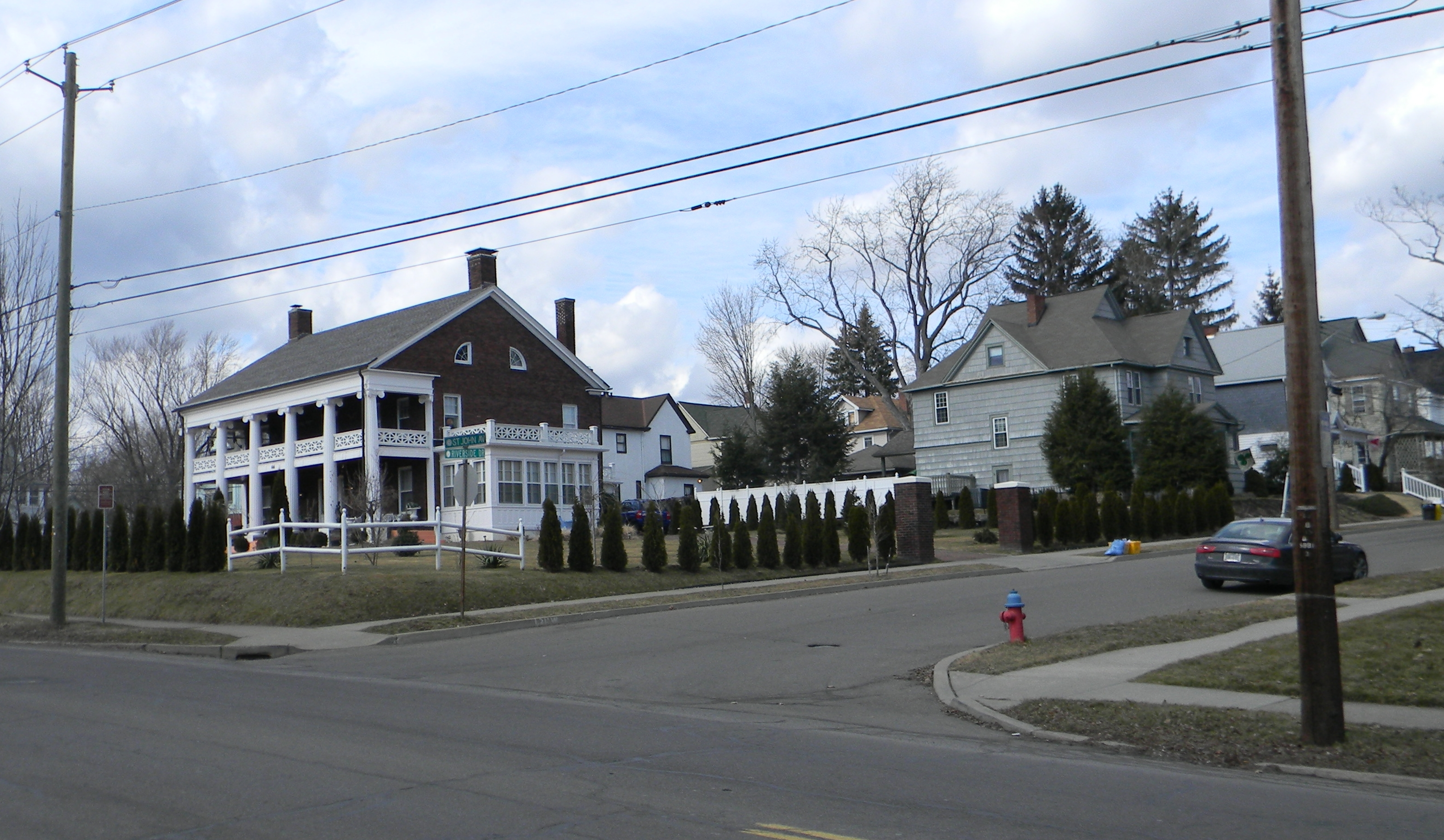 Abel Bennett Tract Historic District — in Johnson City, Broome County, New York.